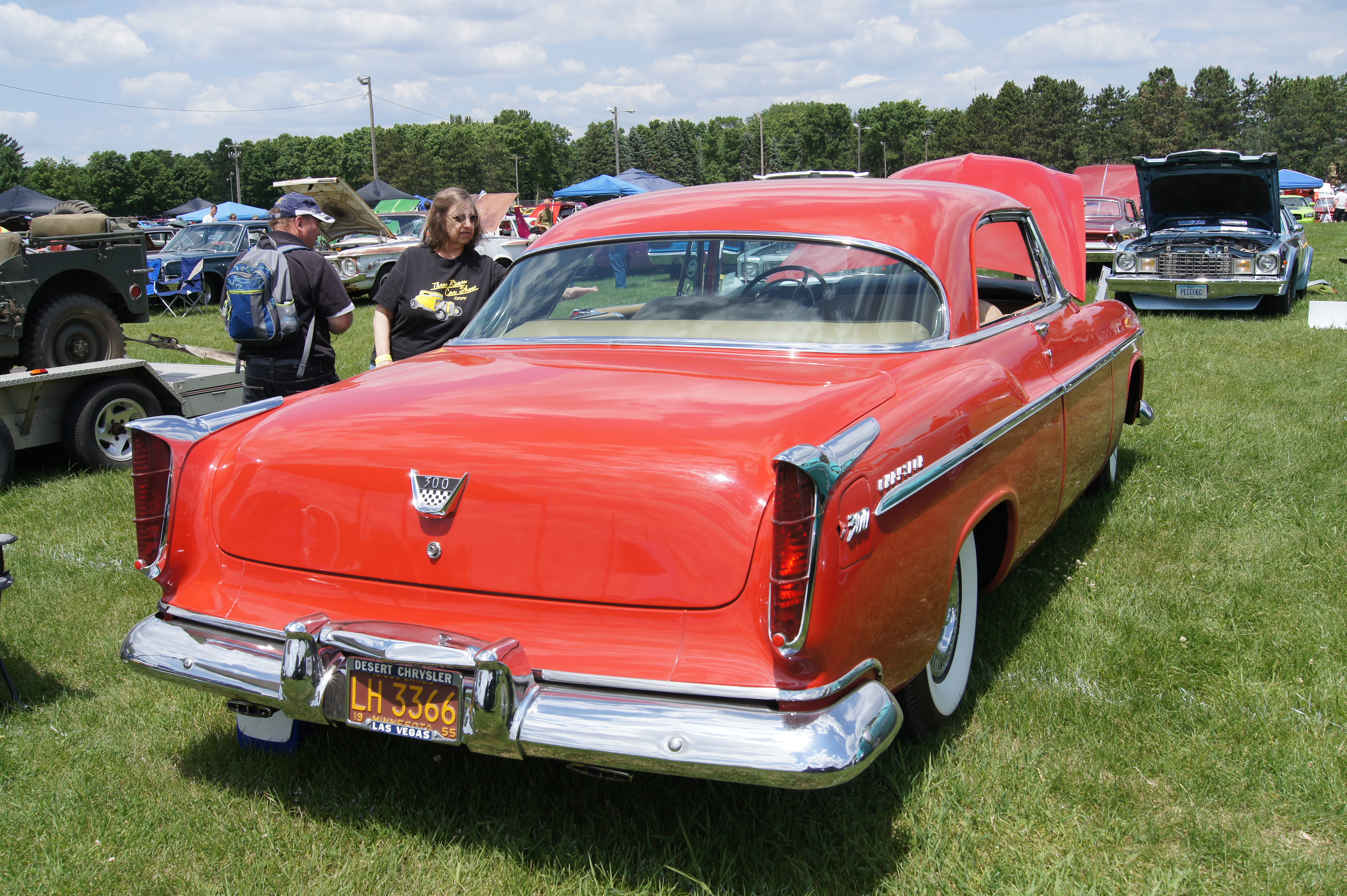 28th Annual Midwest Mopars in the Park June 2, 2012